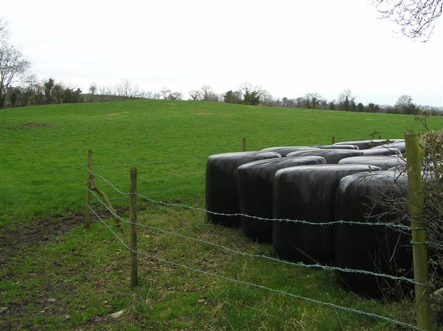 Drumgool Townland Looking south-east